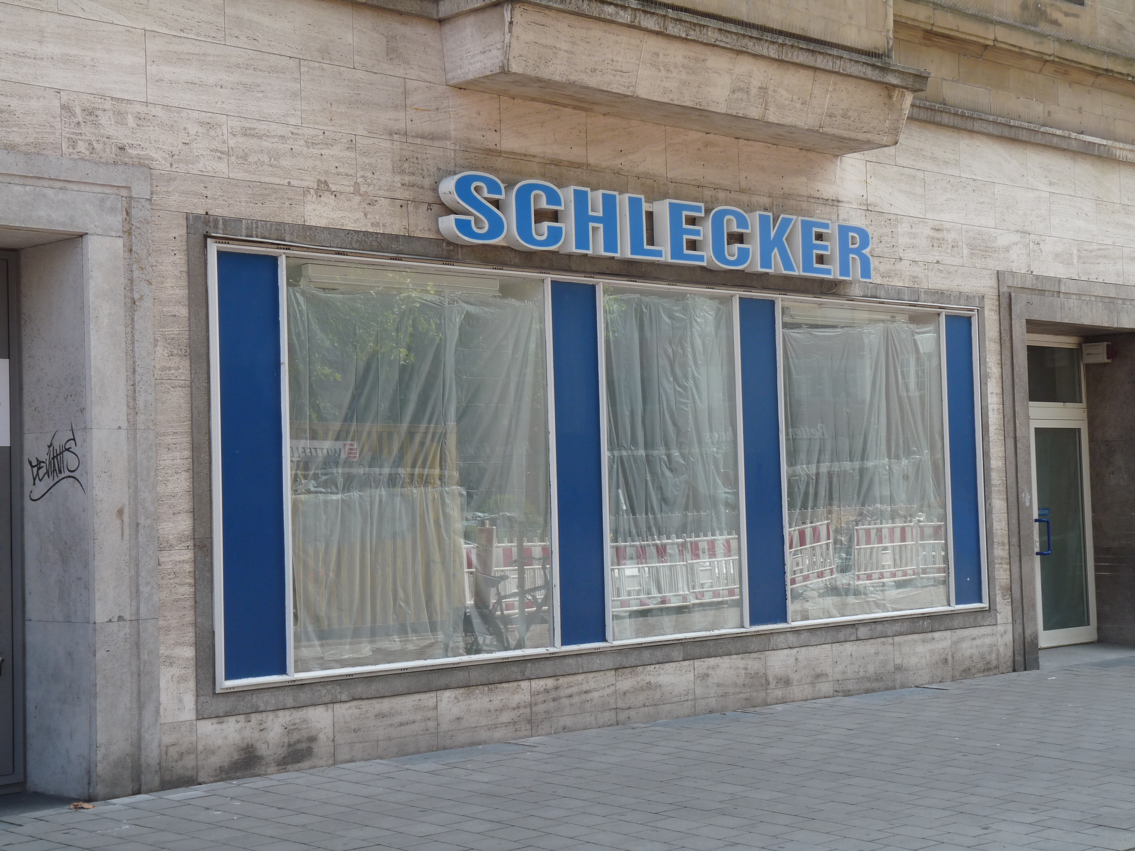 closed store of Schlecker at Ludgeristraße in Münster, Germany